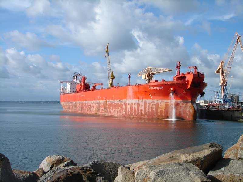 The shuttle tanker Gerd Knutsen in Brest.